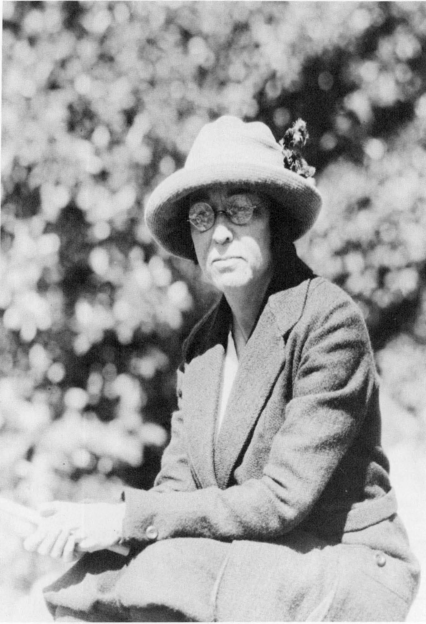 Helen Heffron Roberts in 1926 by J. P. Harrington, courtesy of the Smithsonian Institution